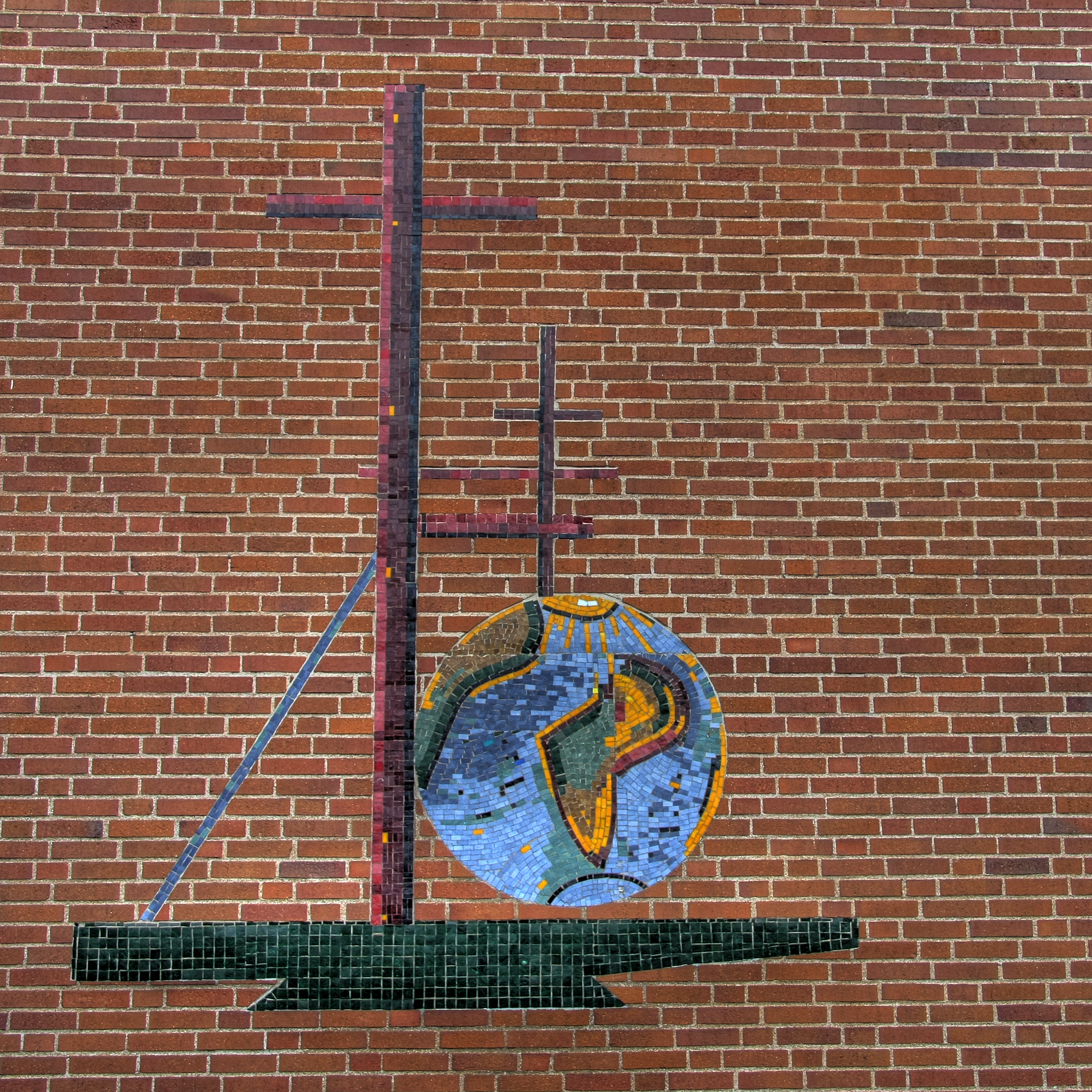 Exterior mosaic by Yngve Nilsson on Västerkyrkan, a church in Hässleholm, Sweden